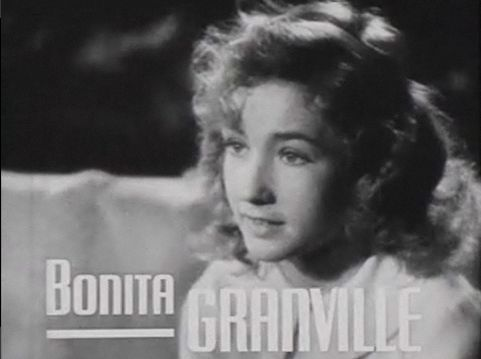 Screenshot of Bonita Granville from the film Call It a Day